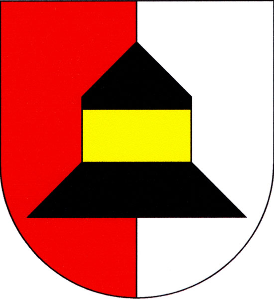 Coat of amrs of Šanov municipality, Rakovník District, Czech Republic.